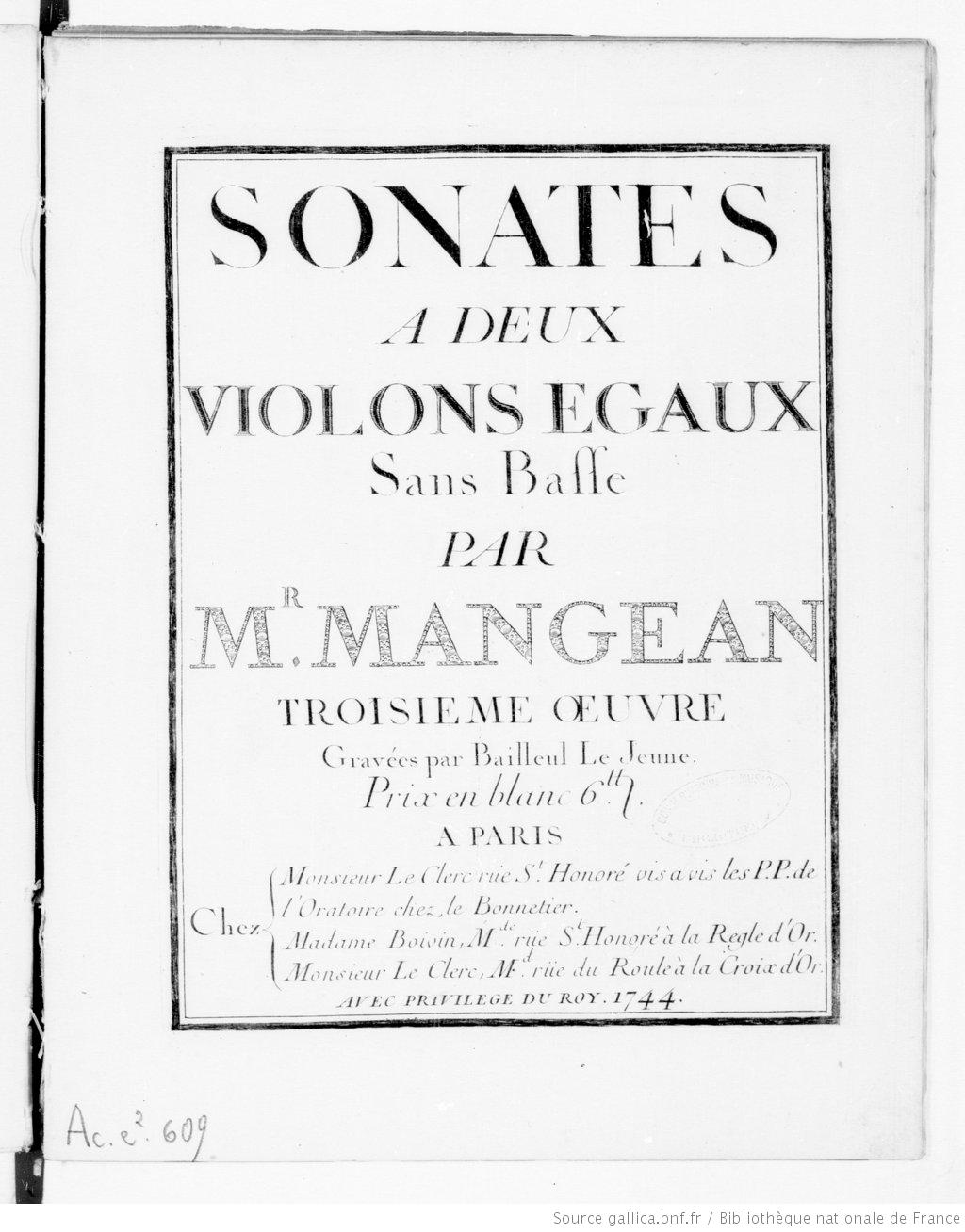 Sheet music of a sonate for two equal violins without bass by Étienne Mangean.